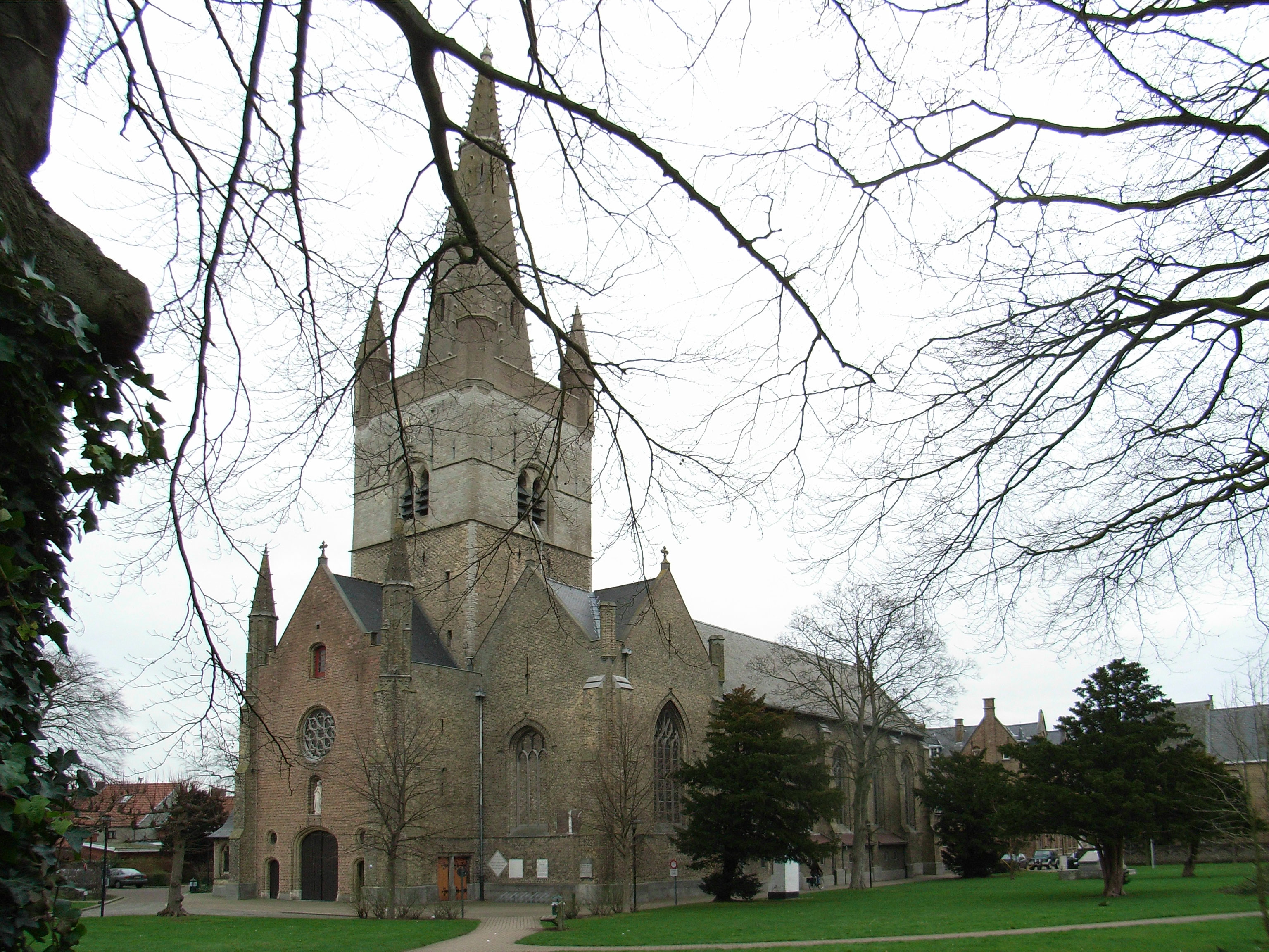 Church of Our Lady in Gistel, West Flanders, Belgium